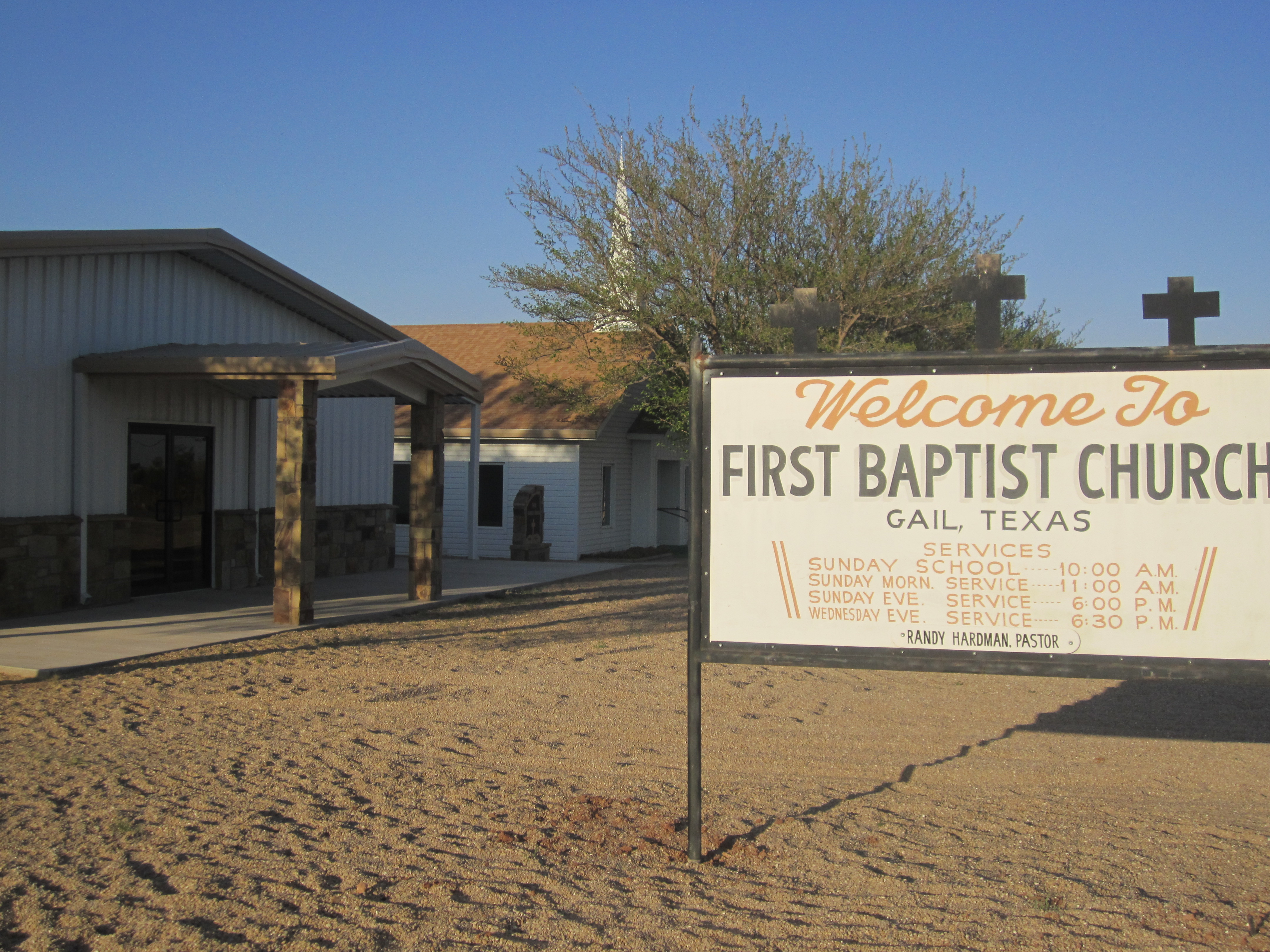 I took photo with Canon camera in Gail, TX.